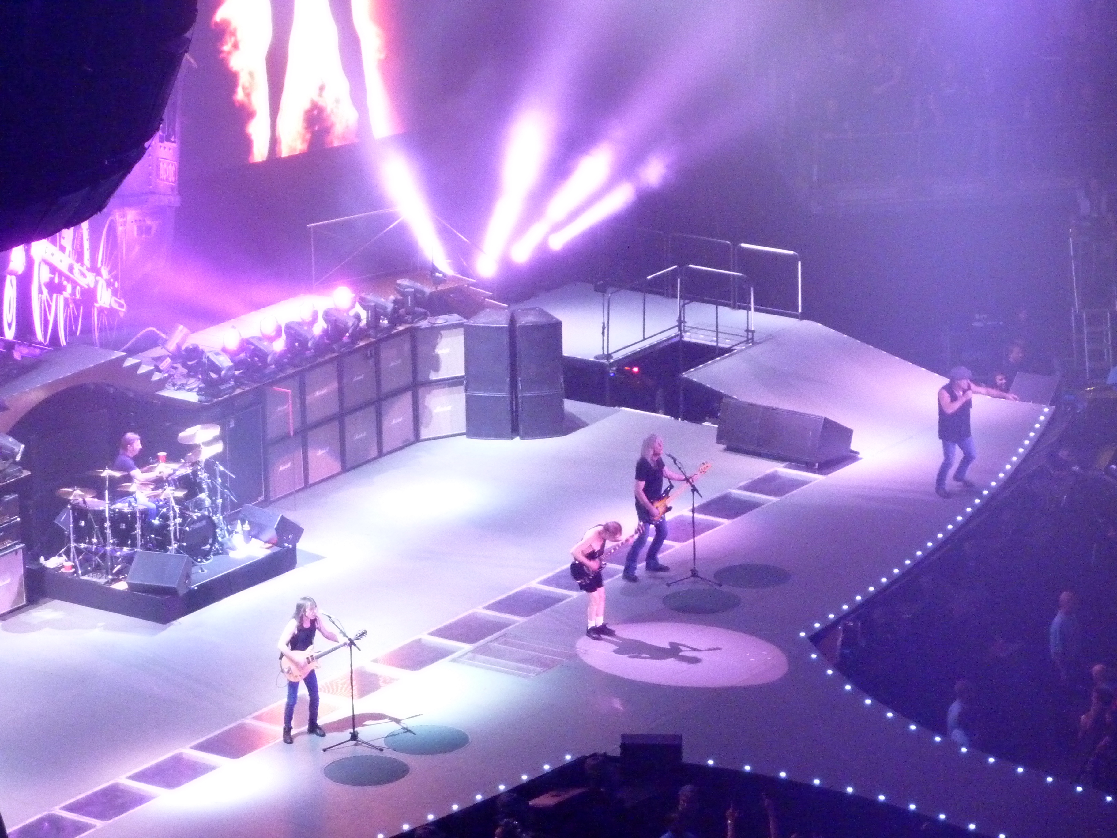 AC/DC live at the O2, London. April 14, 2009.